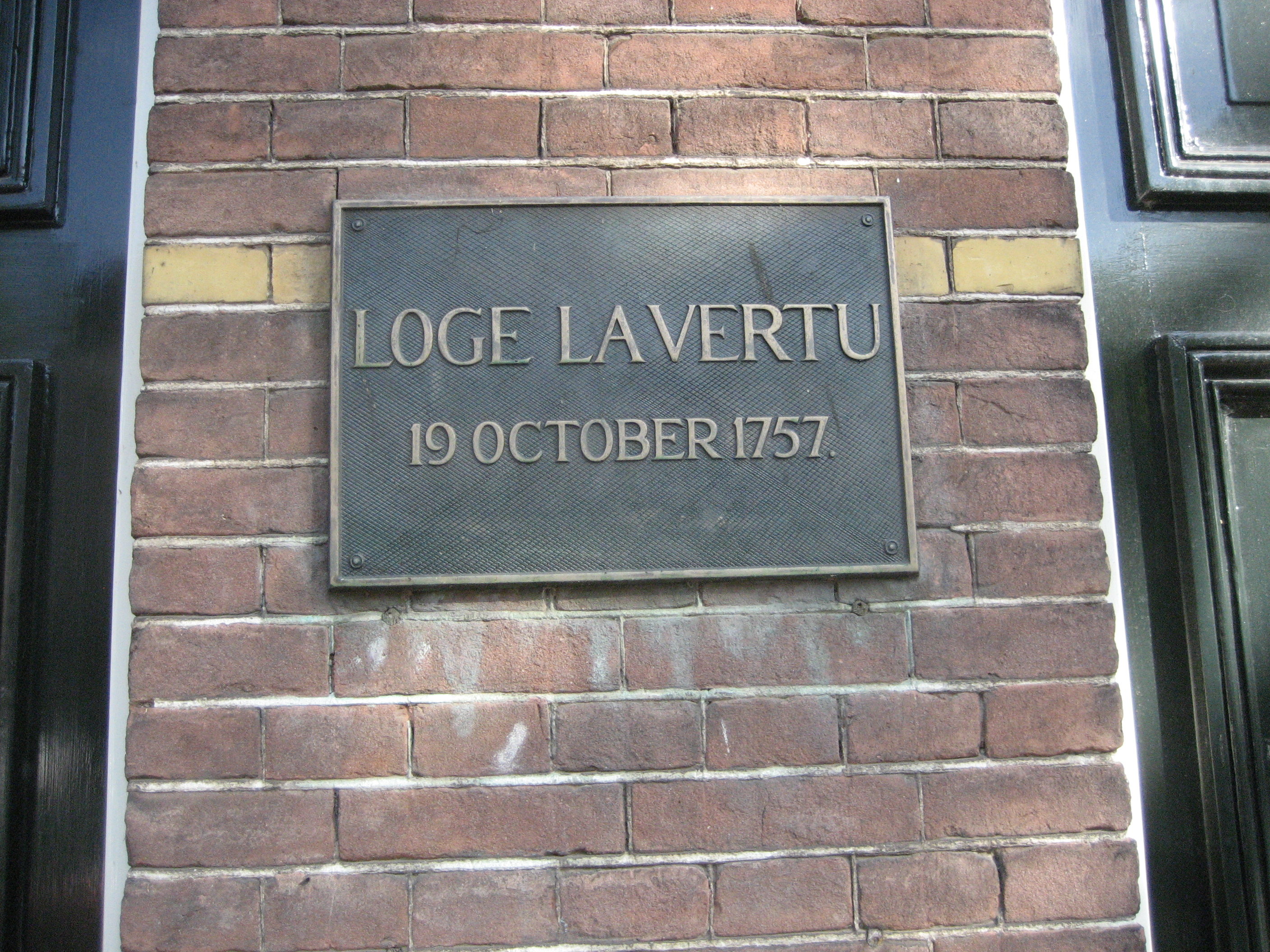 Freemasonry lodge in Leiden (the Netherlands). Plaque reads: "Loge La Vertu, 19 October 1757".